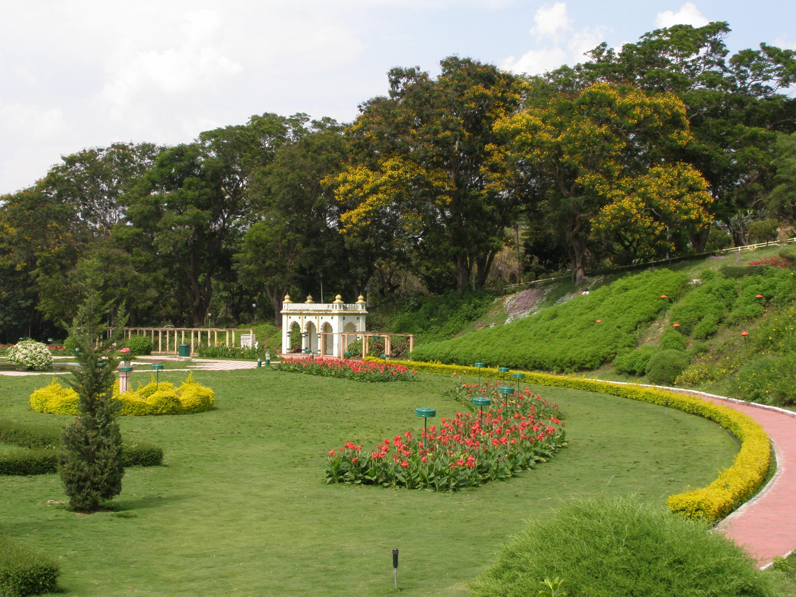 Brindavan Gardens near Mysore, Indiaಕನ್ನಡ: ಬೃುಂದಾವನ ಉಧ್ಯಾನವನ